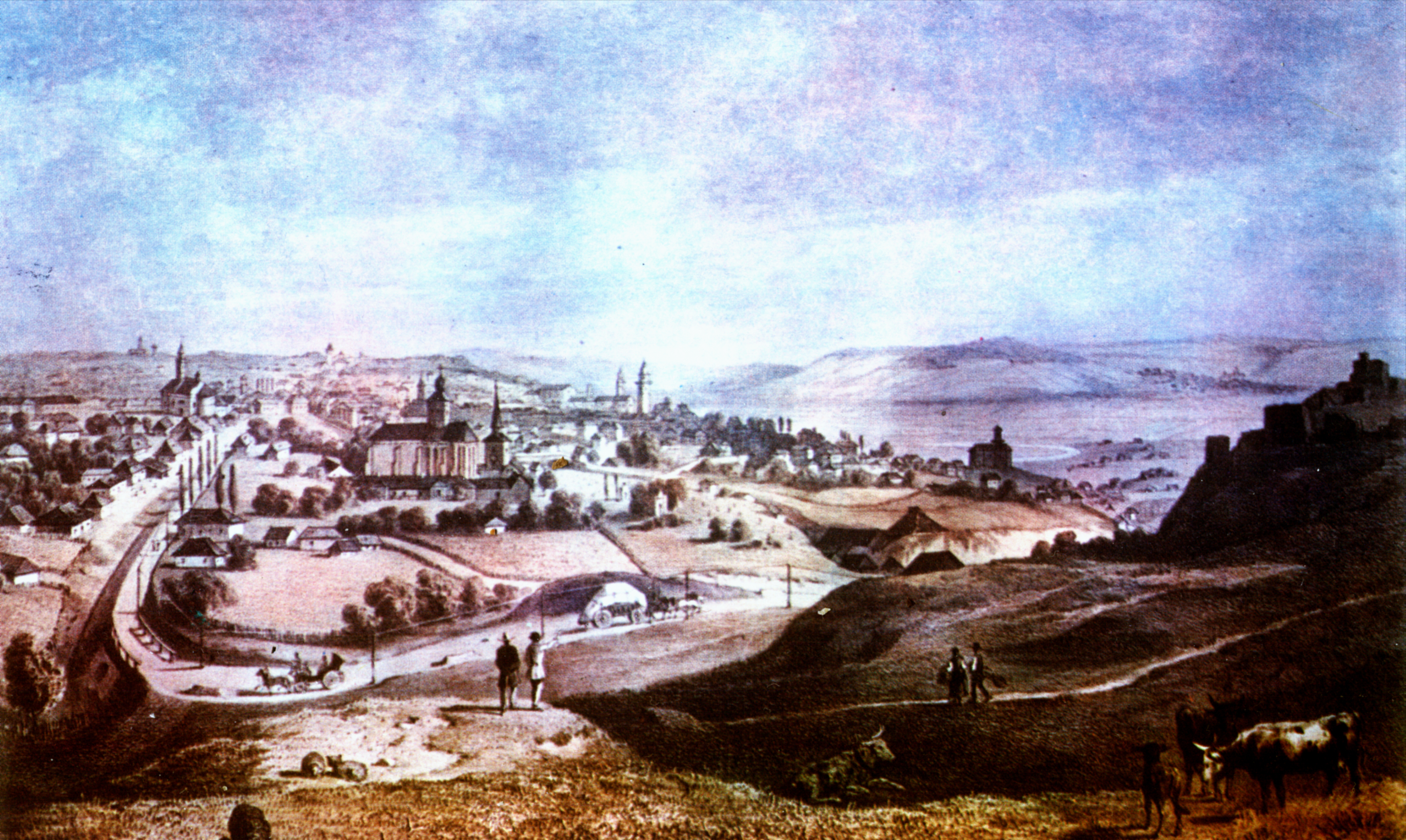 Suceava - lithography (early 19th century).